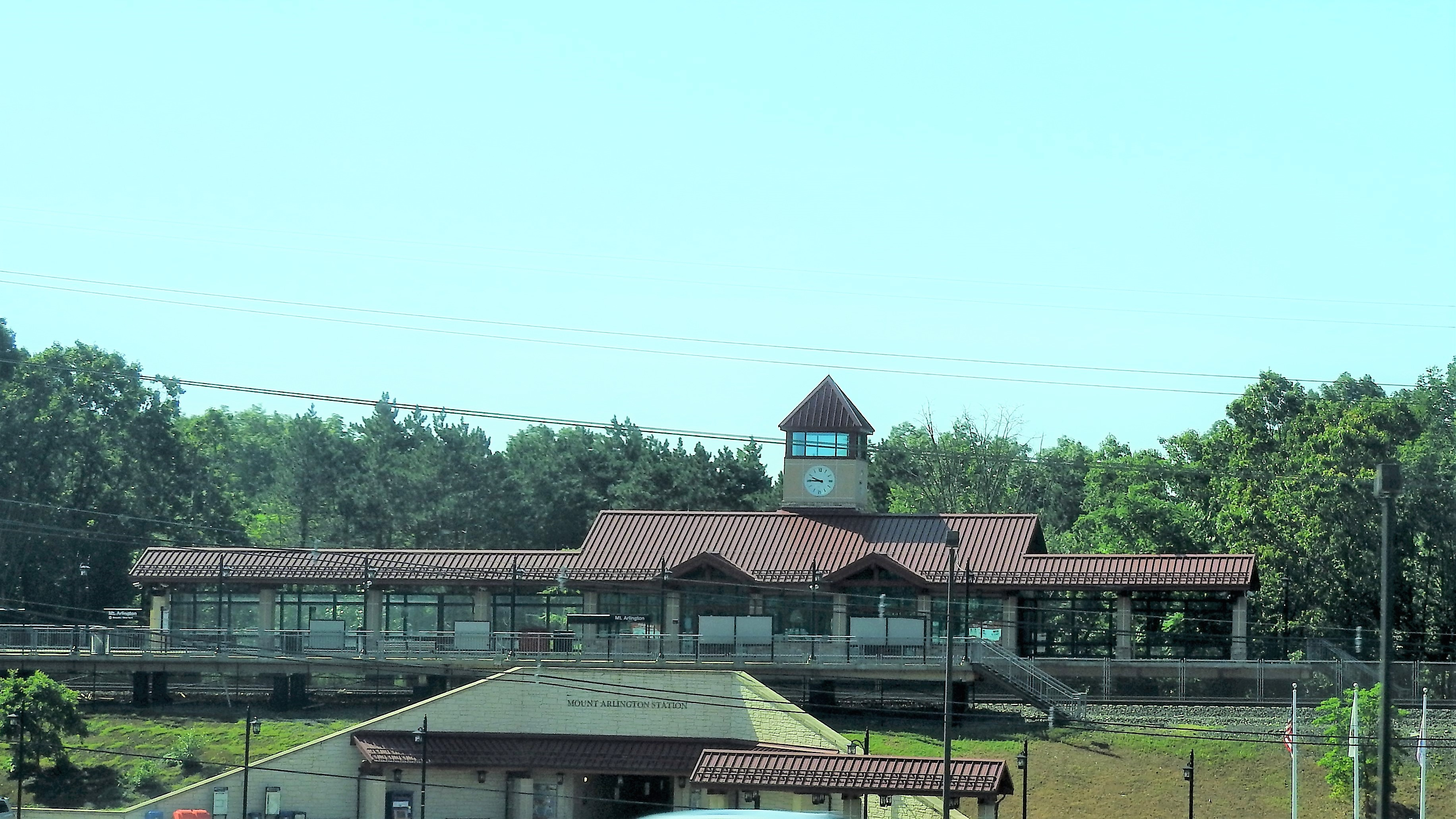 Looking south from a swiftly passing bus at Mount Arlington Station in late morning. Pictures shortly before sunset may be better.